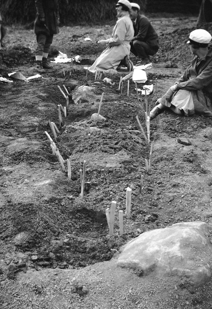 Archaeologists at a boat grave, at an archaeological excavation in Tuna, Uppland. Arkeologer vid en båtgrav, vid en arkeologisk utgrävning i Tuna, Uppland. Parish (socken): Alsike Province (landskap): Uppland Municipality (kommun): Uppsala County (län): Uppsala Photograph by: Unknown, or self-timer Date: 14.05.1928 Format: Film Persistent URL: Read more about the photo database (in english)